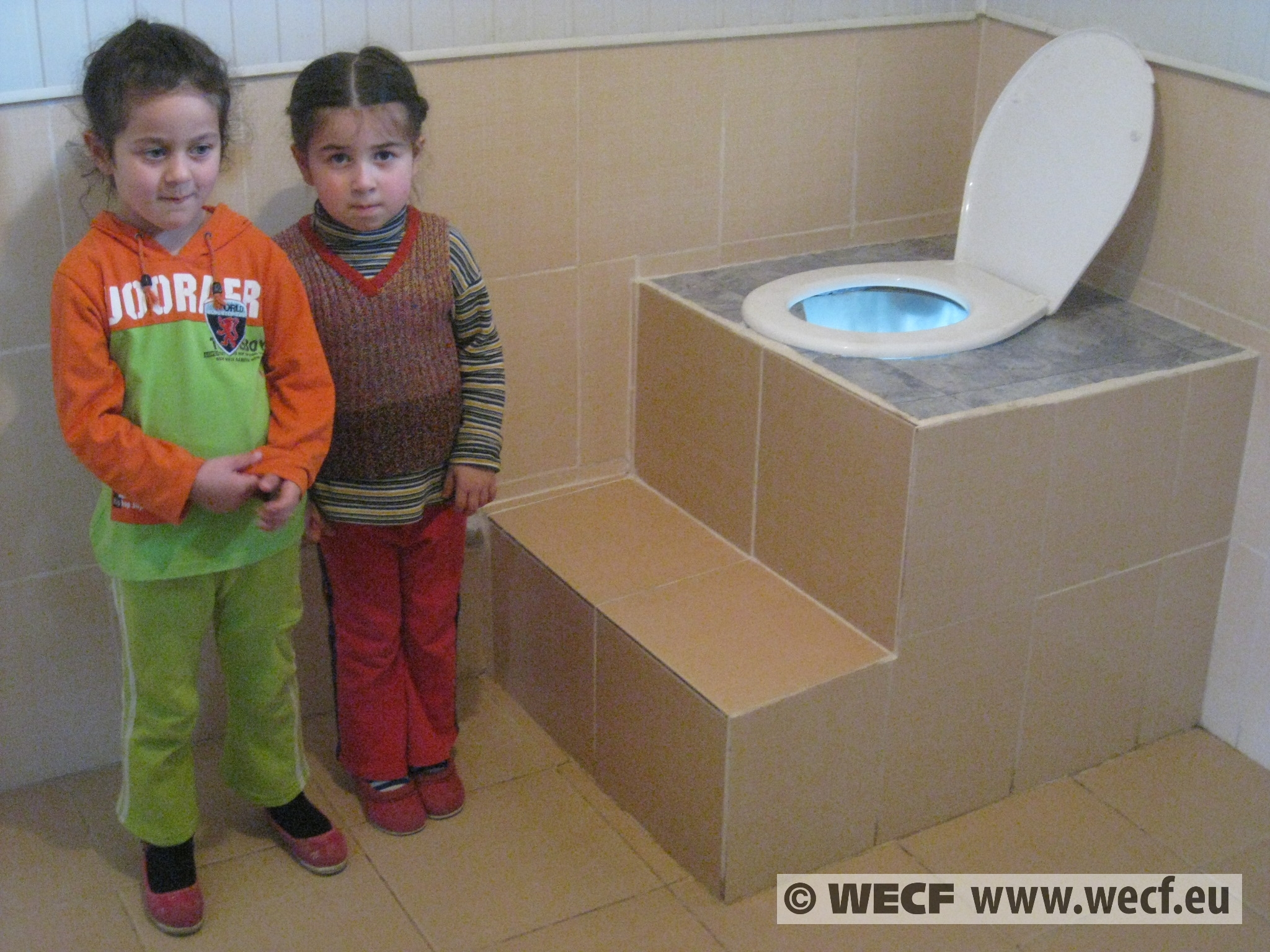 Georgia - UDDT projects by WECF and partners